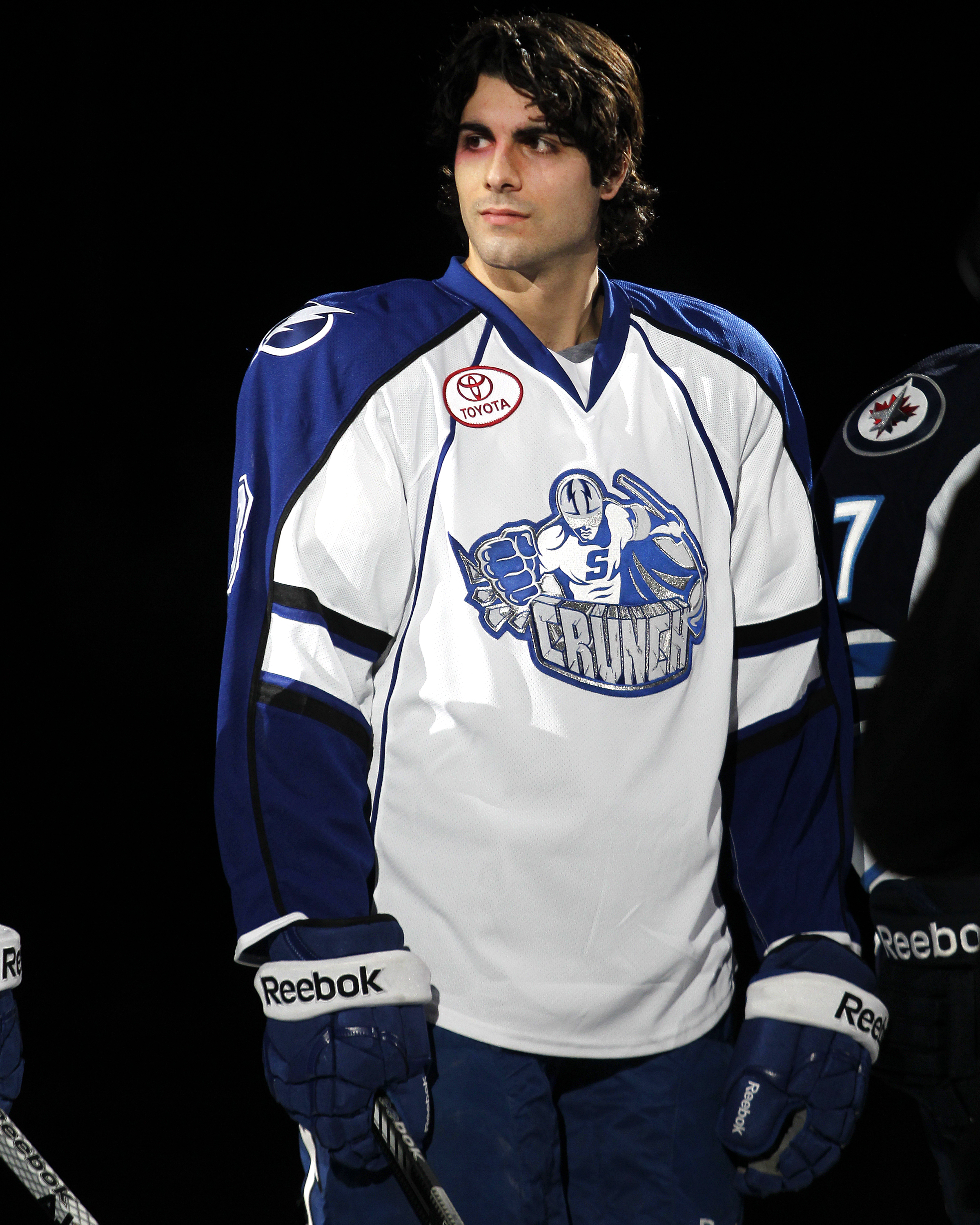 Barberio American Hockey League (AHL). 2013 All-Star Skills Competition. Taken on January 27, 2013.